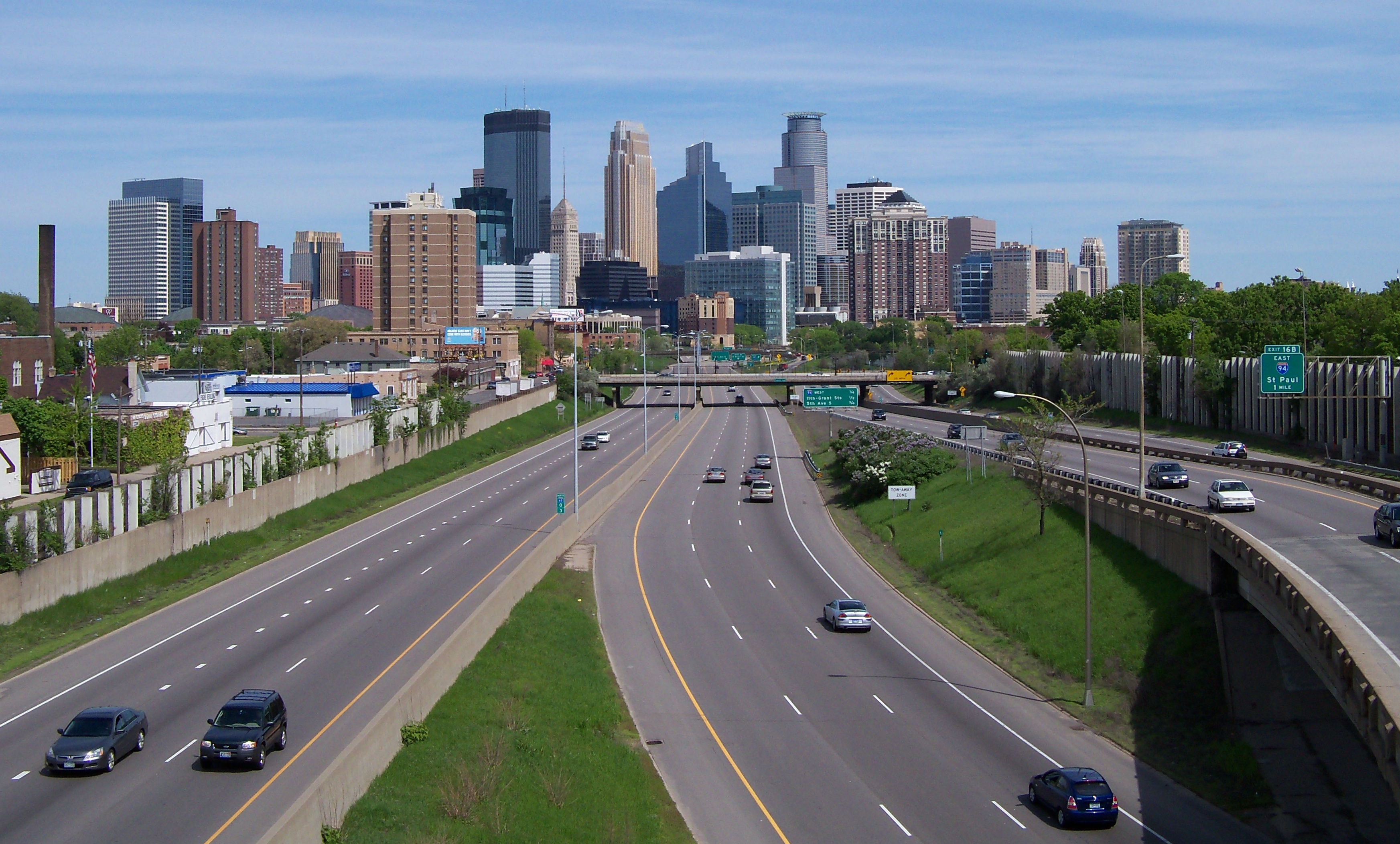 Interstate 35W approaching downtown Minneapolis, Minnesota, USA. Looking north from the 24th Street pedestrian bridge.